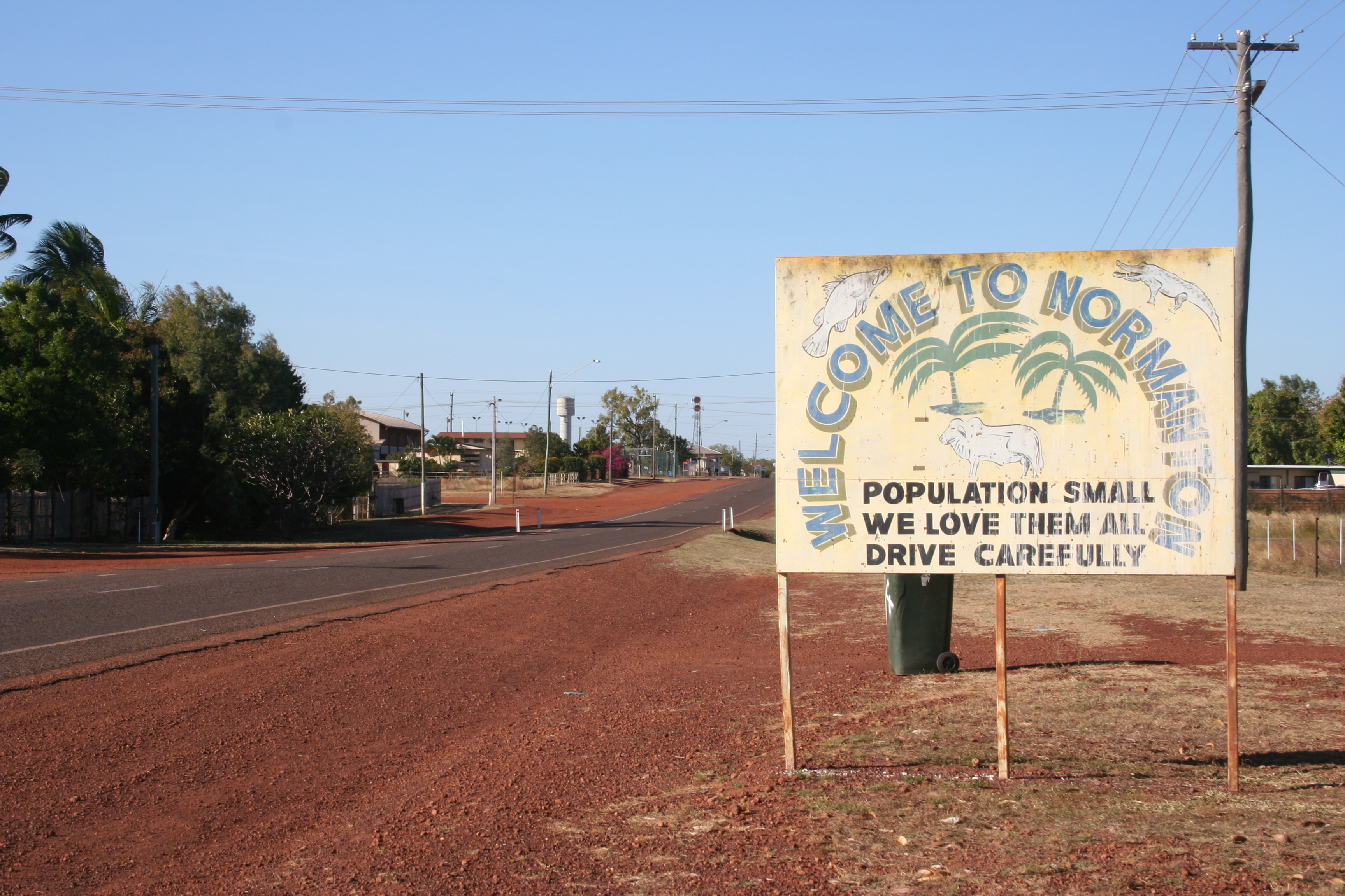 Normanton in Gulf Savannah, Australia